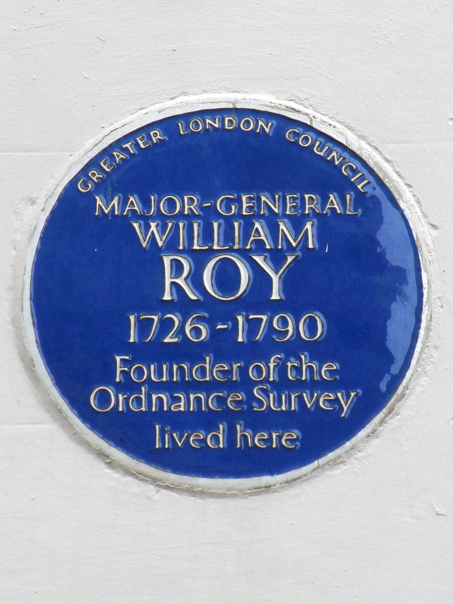 Blue plaque for Major-General William Roy, 10 Argyll Street, London W1, England.